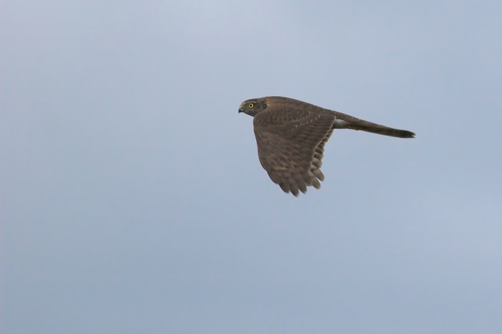 Accipiter nisus in flight. Photo by Thermos. A picture of a sparrowhawk. This is probaply the same bird than in the pictures AccipiterNisusFlightA.jpg and AccipiterNisusFlightB.jpg, but photographed on different day. And this time, unfortunately, very far away and in very bad light. However, at least one can see the bird in flight photographed from about the same level.